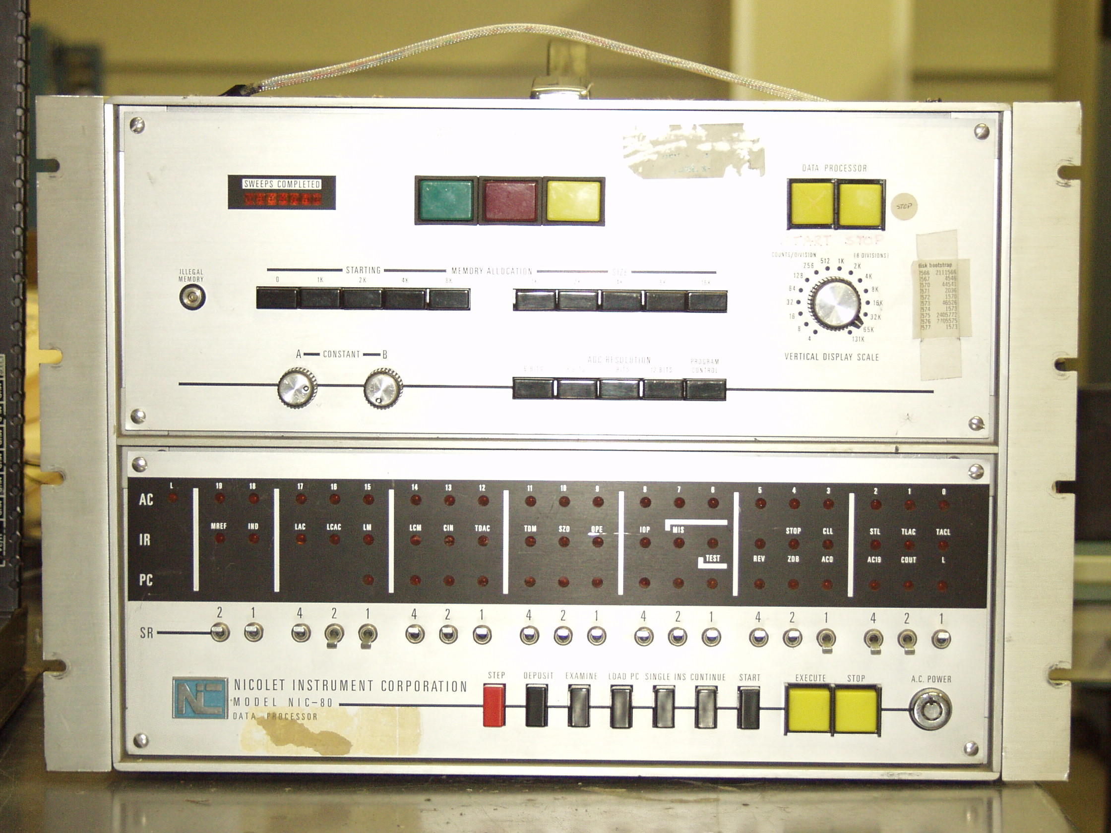 Nicolet 1080 computer front panel